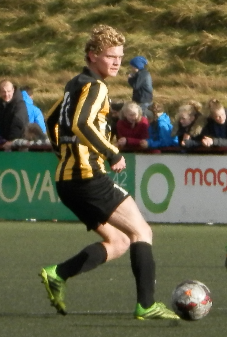 Meinhard Olsen is a Faroese football player.